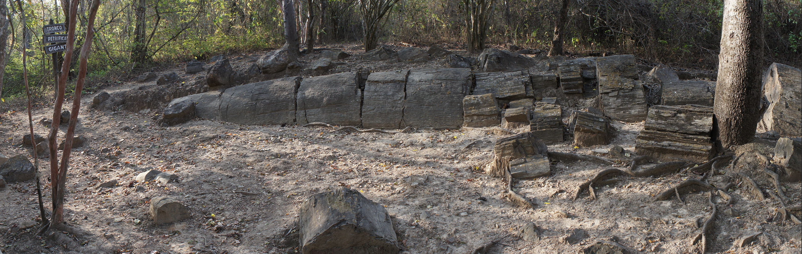 A large fossil tree in the Bosque Petrificado de Puyango in southern Ecuador.